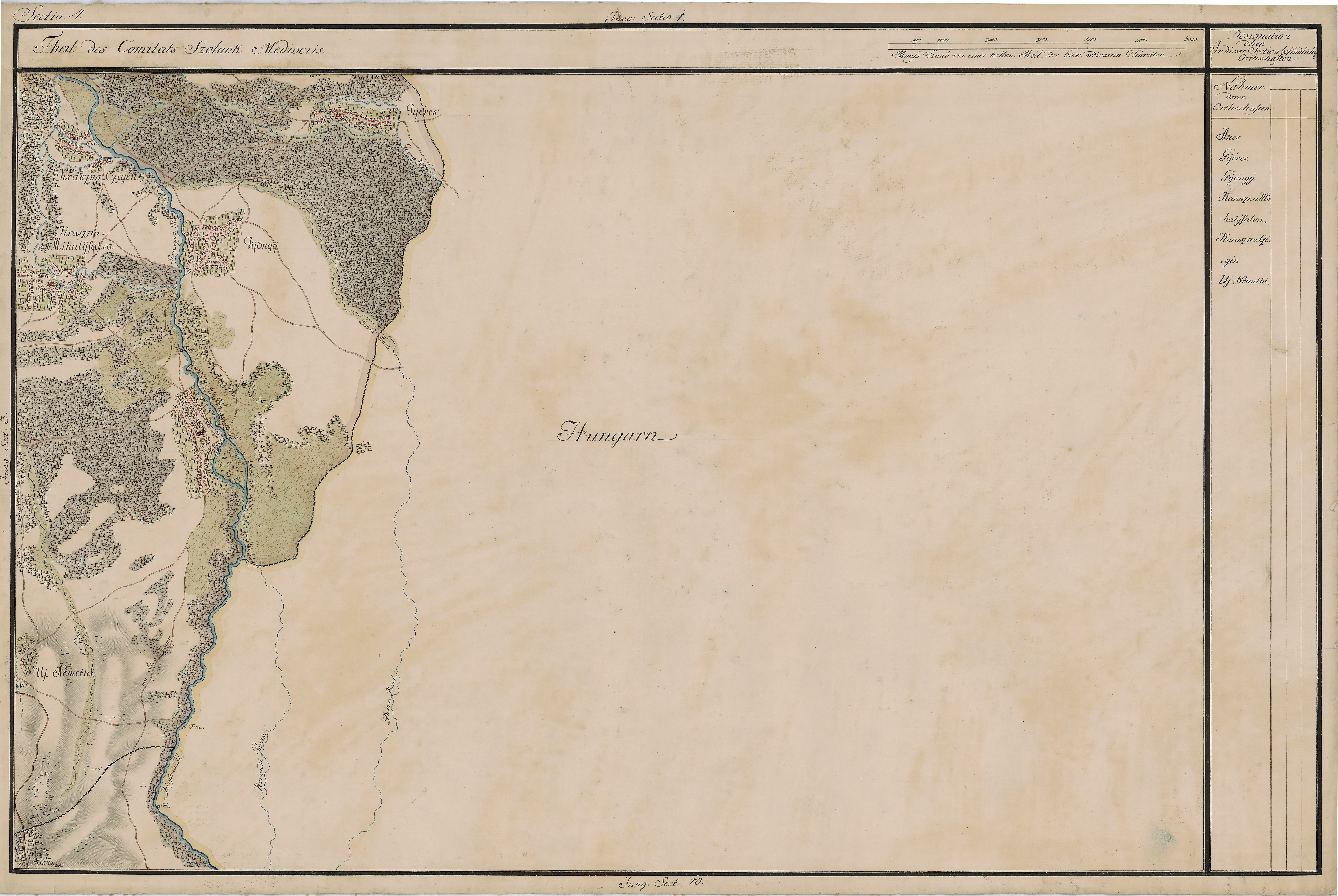 Grand Duchy of Transylvania, 1769-1773. Josephinische Landaufnahme pg.004